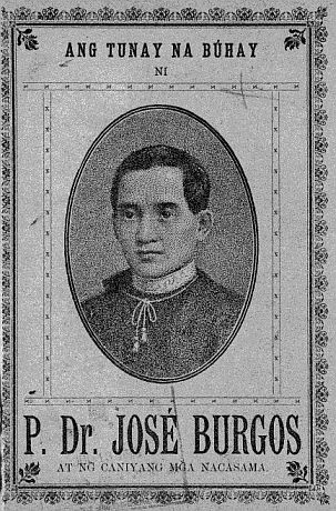 Image from the book "Ang Tunay na Buhay ni P. Dr. Jose Burgos" by Honorio Lopez